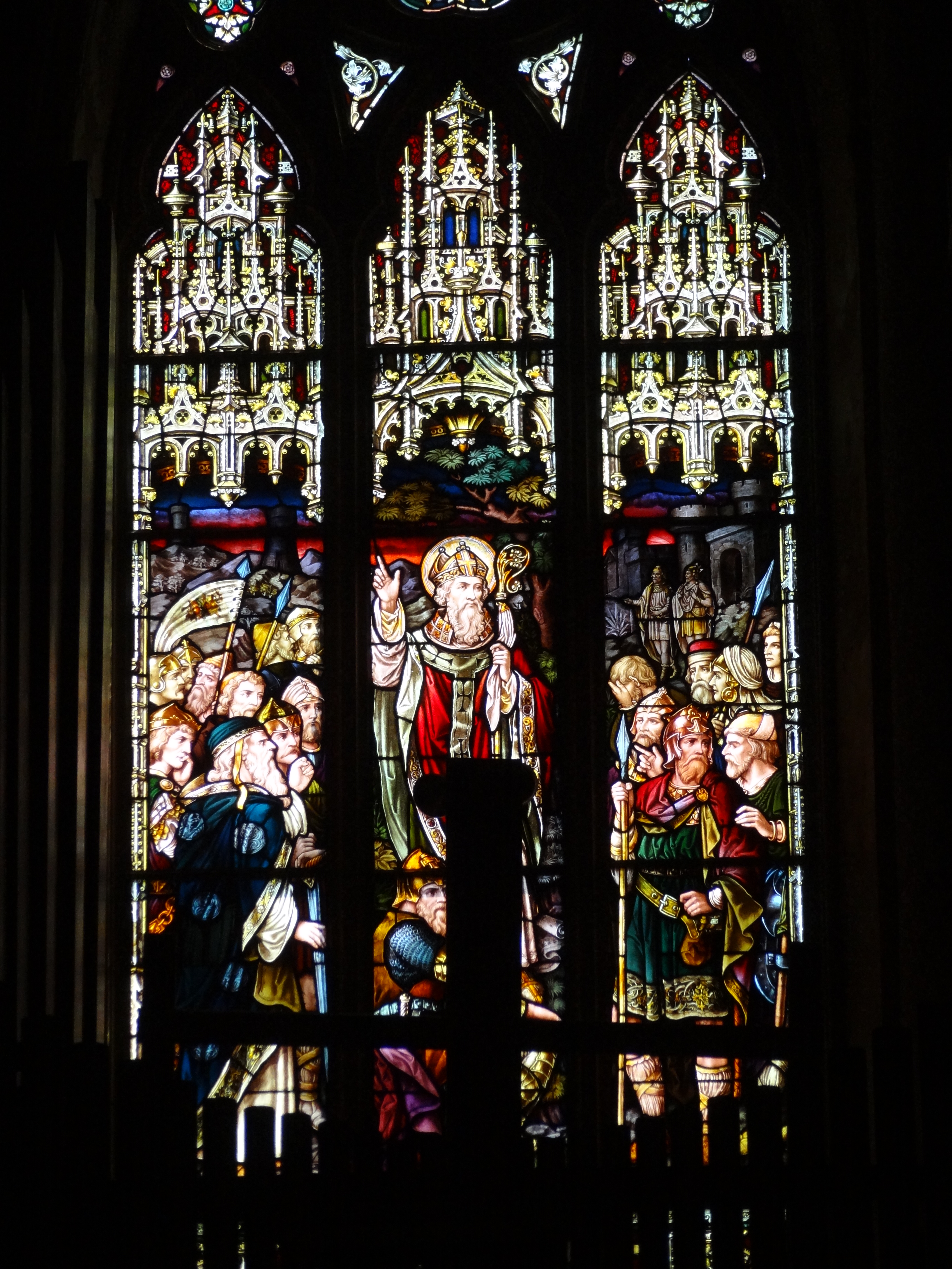 A stained glass window in Saint Patrick Church depicting "Saint Patrick Teaching the Chieftains at Tara". This stained is the main window on the front of the church. Located at 284 Suffolk Street, Lowell, Massachusetts.